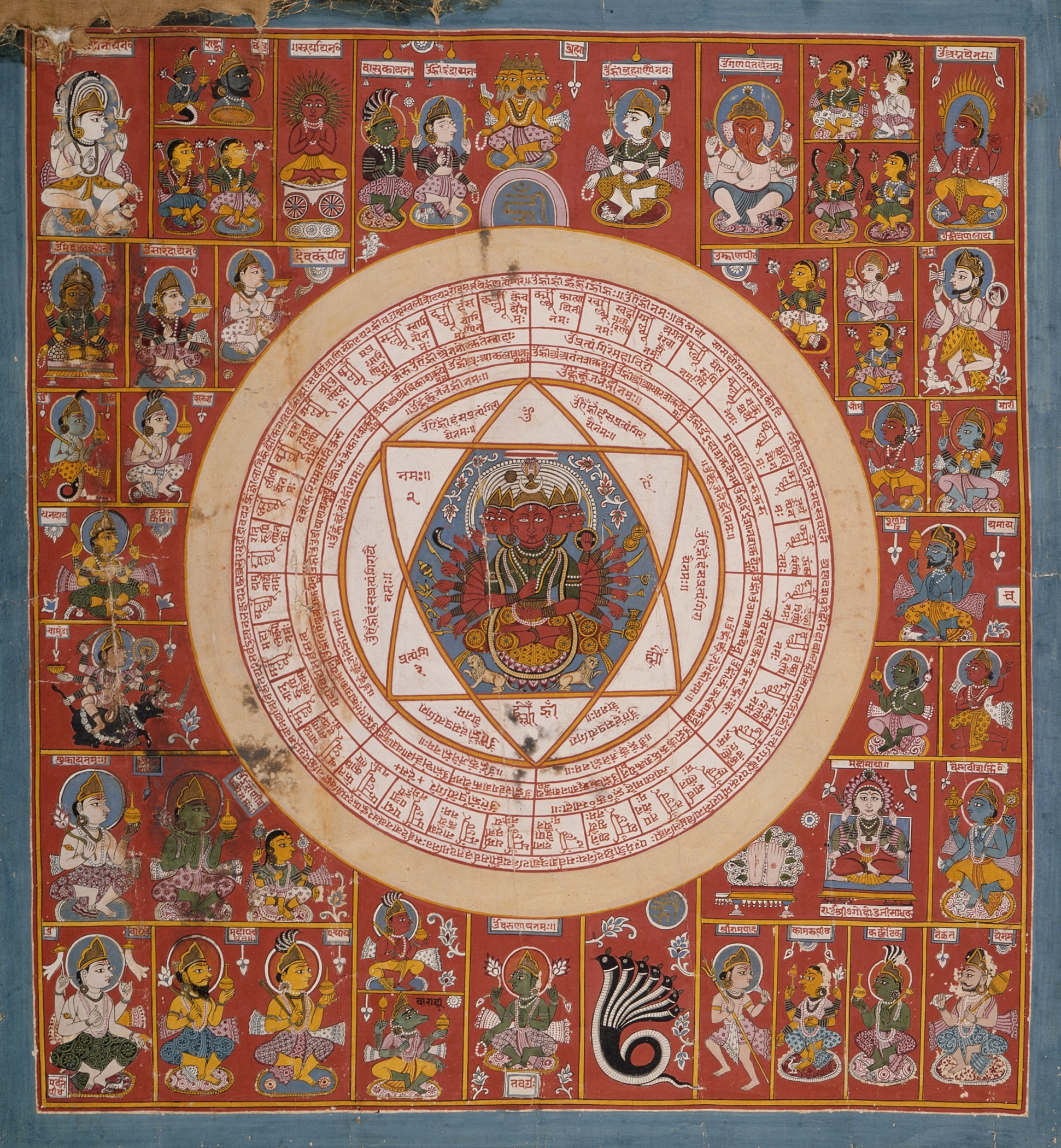 India, Gujarat, Kachchh (Kutch), circa 1700-1750 Drawings; watercolors Opaque watercolor and gold on paper; cloth backing Sheet: 22 3/8 x 20 5/8 in. (56.83 x 52.38 cm); Image: 20 3/4 x 19 1/8 in. (52.7 x 48.57 cm) Purchased with funds provided by Harry and Yvonne Lenart (M.91.128.1) South and Southeast Asian Art